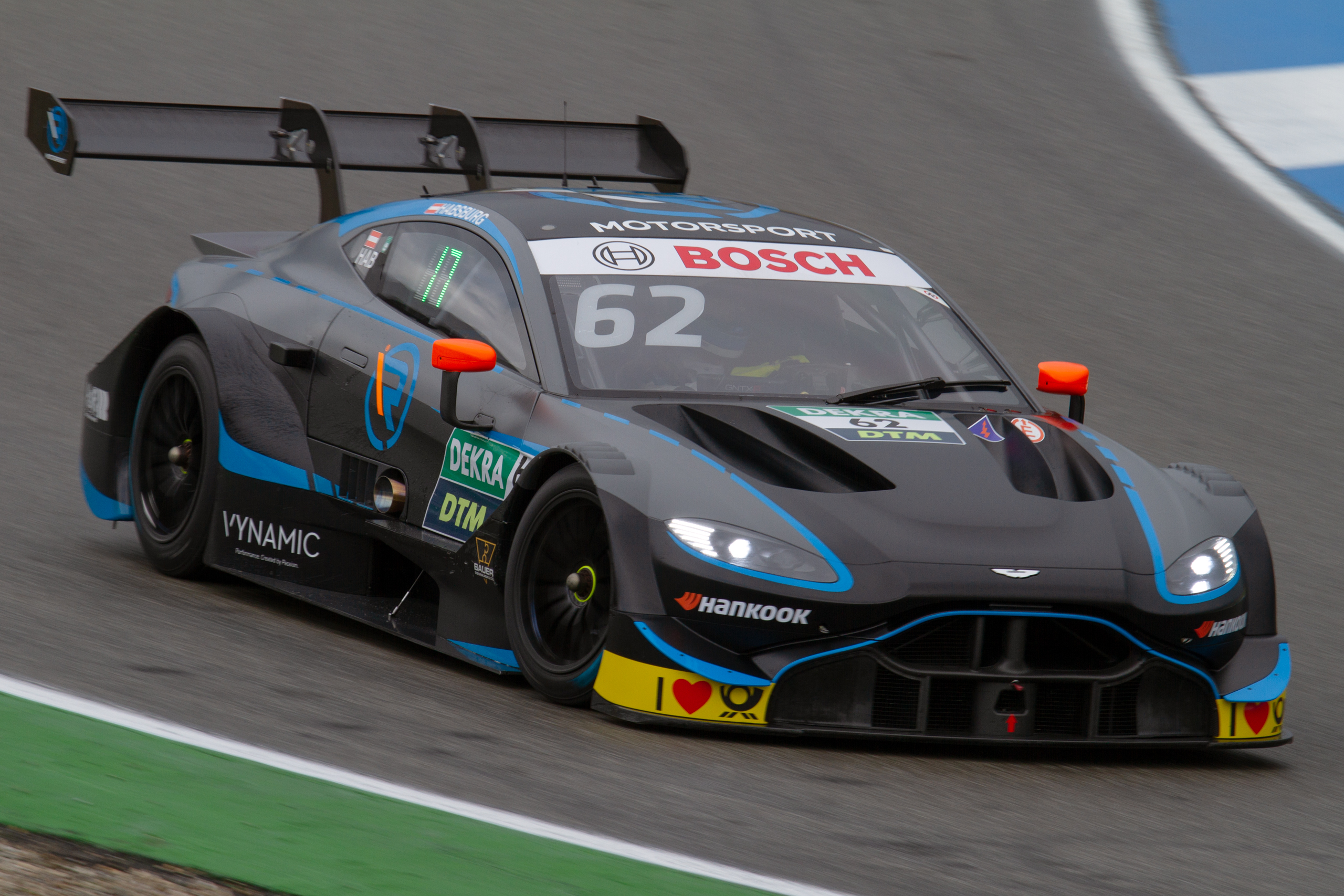 2019 DTM Hockenheimring (May): Aston Martin Vantage DTM of Ferdinand Habsburg